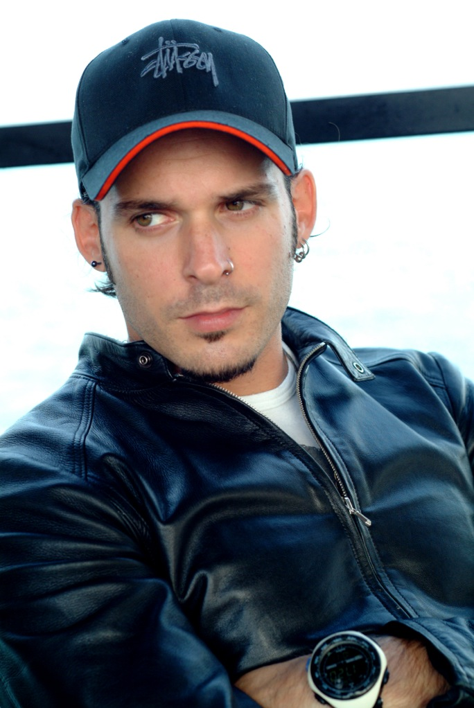 Enrico Silvestrin, italian actor, deejay, television presenter and singer-songwriter (2005)